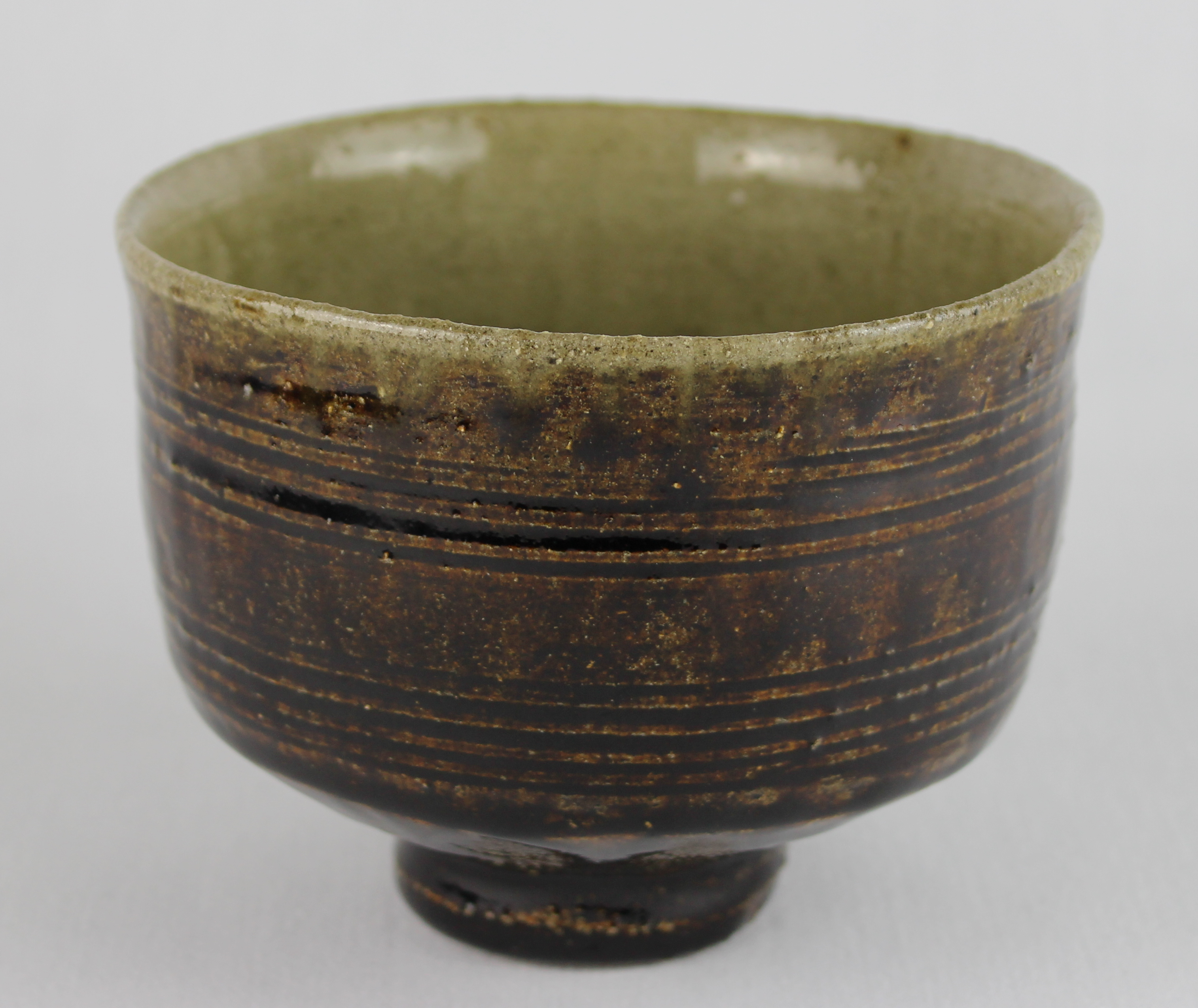 Ame glazed tea bowl with combed band around exterior. From the W.A. Ismay Studio Ceramics Collection at York Art Gallery